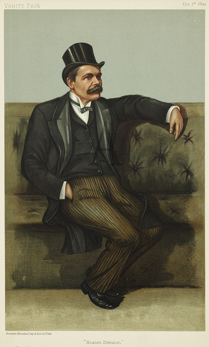 Caricature of Dr J Stuart MP. Caption read "Hoxton Division".